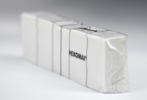 This is a block of plastic explosive which contains 88% RDX.